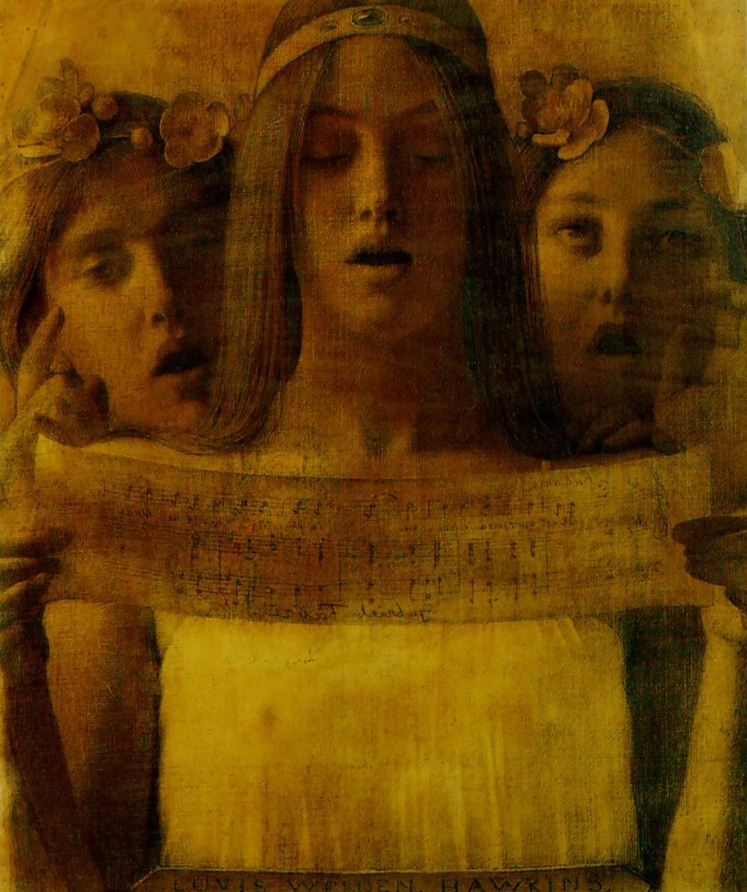 Girls Singing Music by Gabriel Fabry